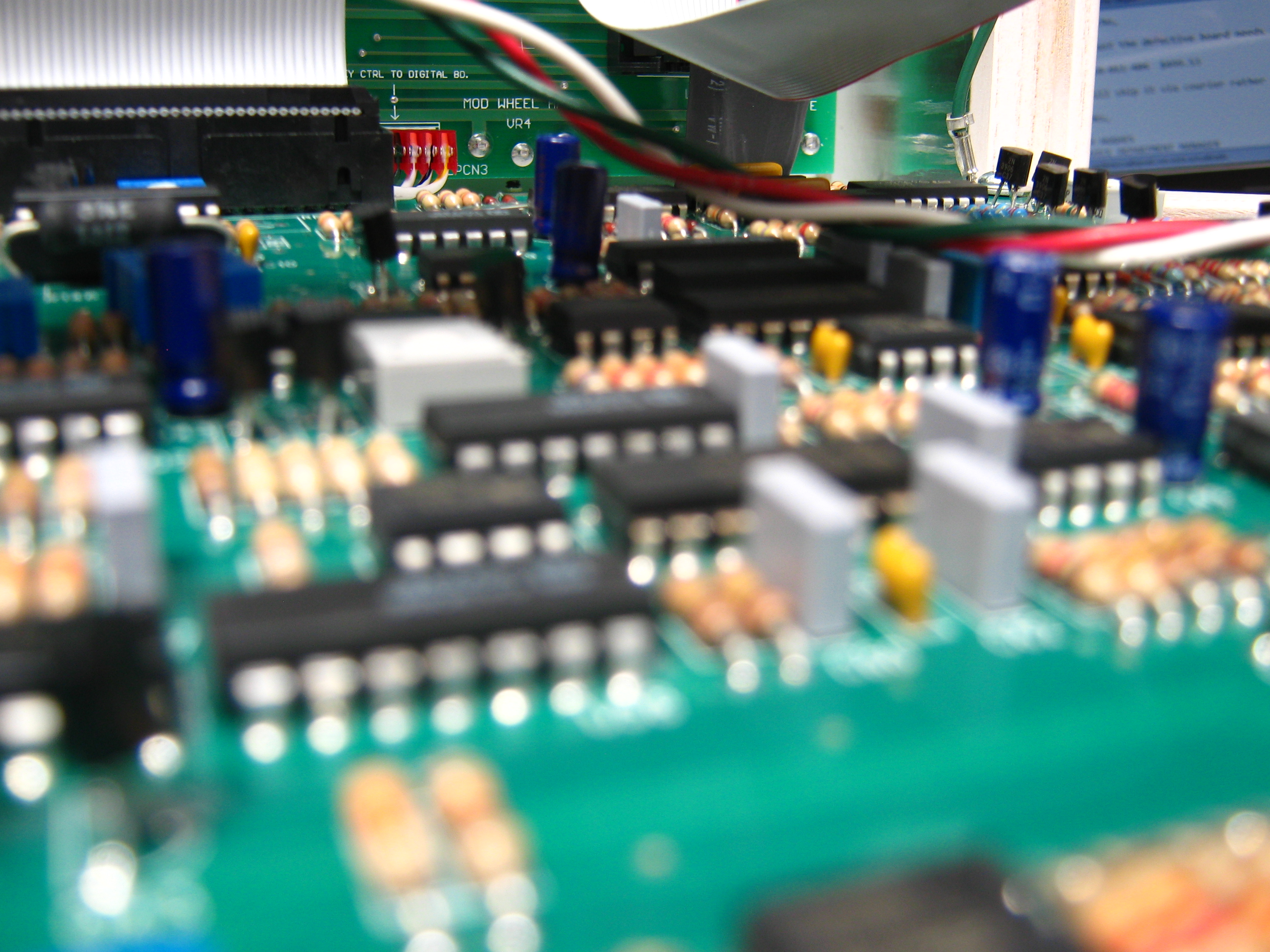 Ctrl to digital mod wheel